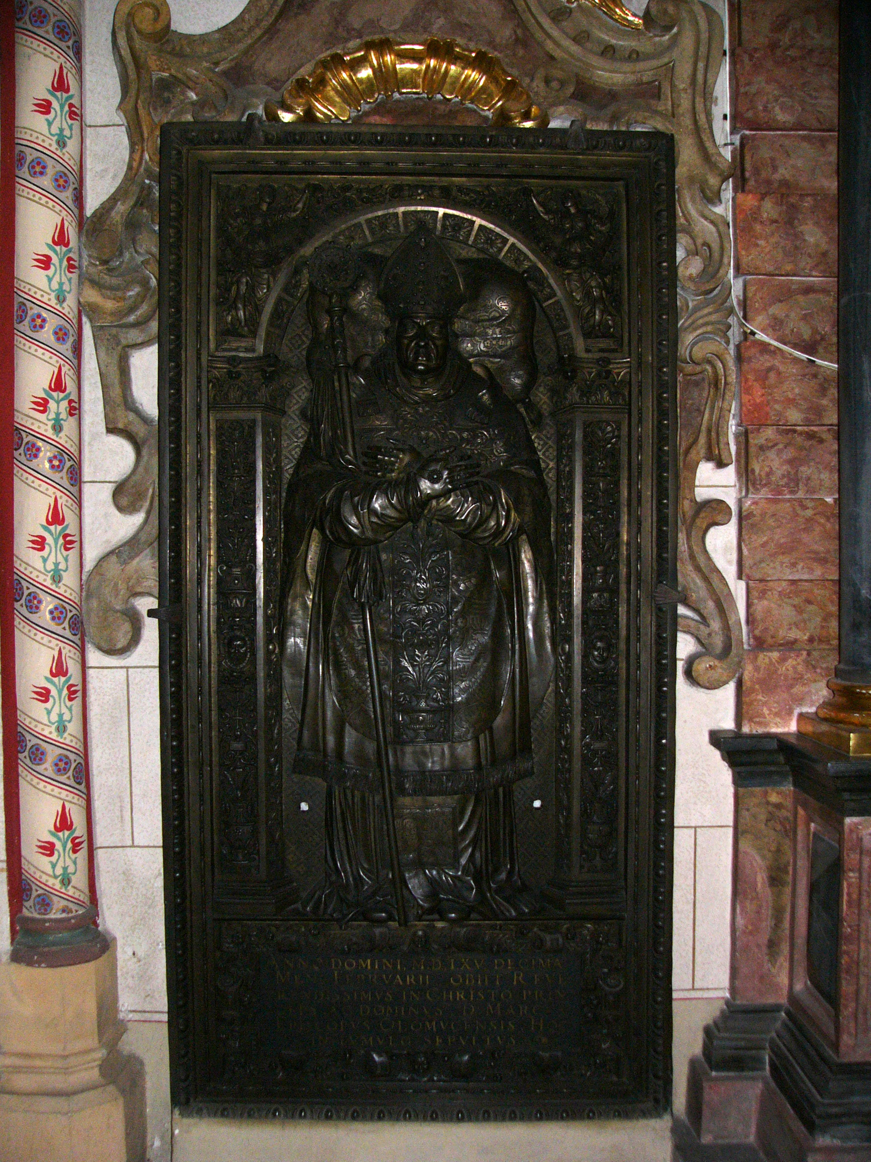 Tombstone of Marek Khuen in St. Wenceslaus cathedral in Olomouc (Czech Republic).